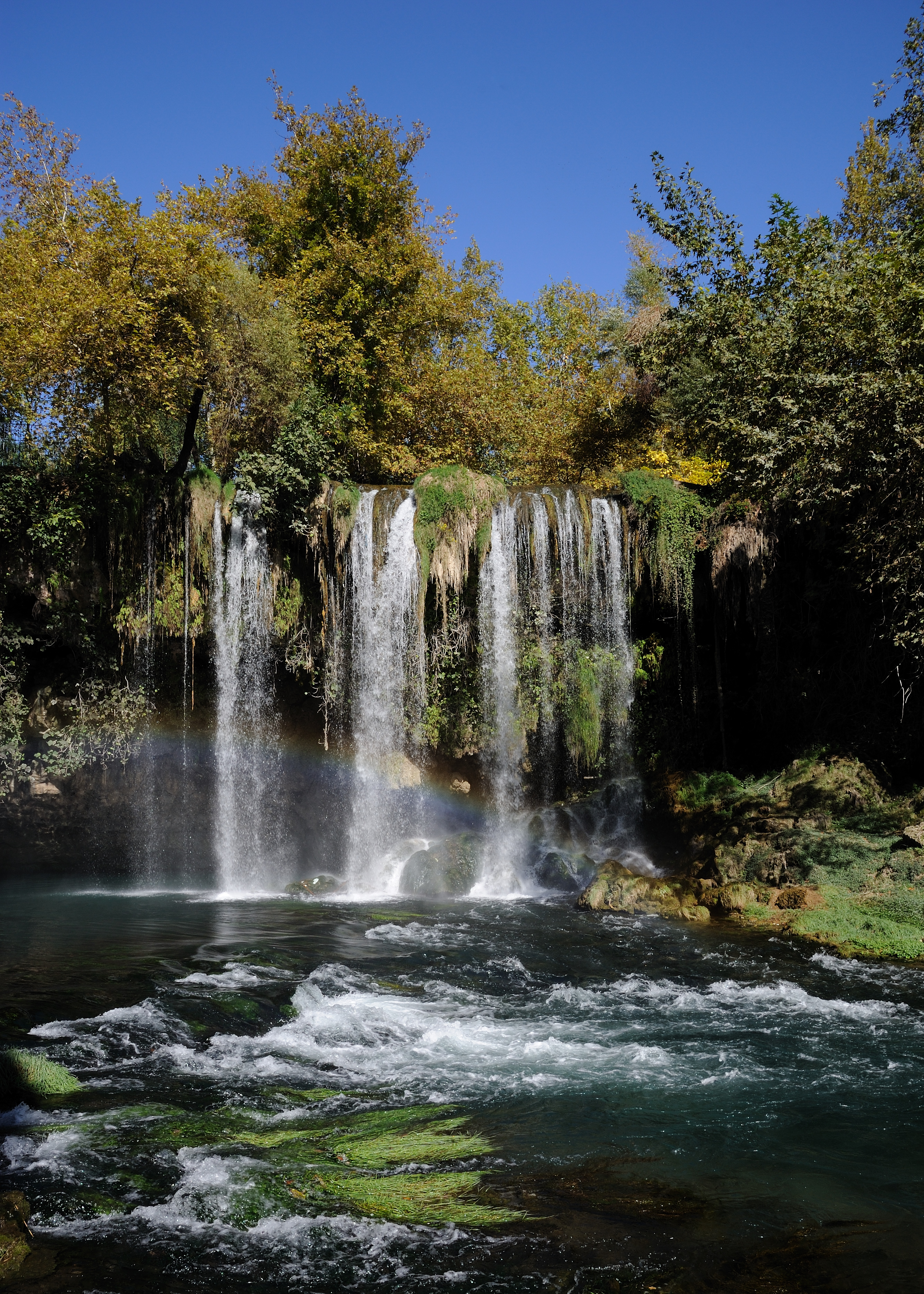 The upper Düden Waterfall within the City of Antalya, Turkey.